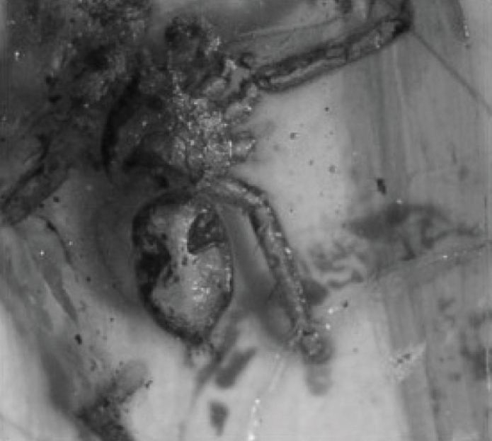 Selenops beynai fossil from Dominican amber - appr. 16 million years old